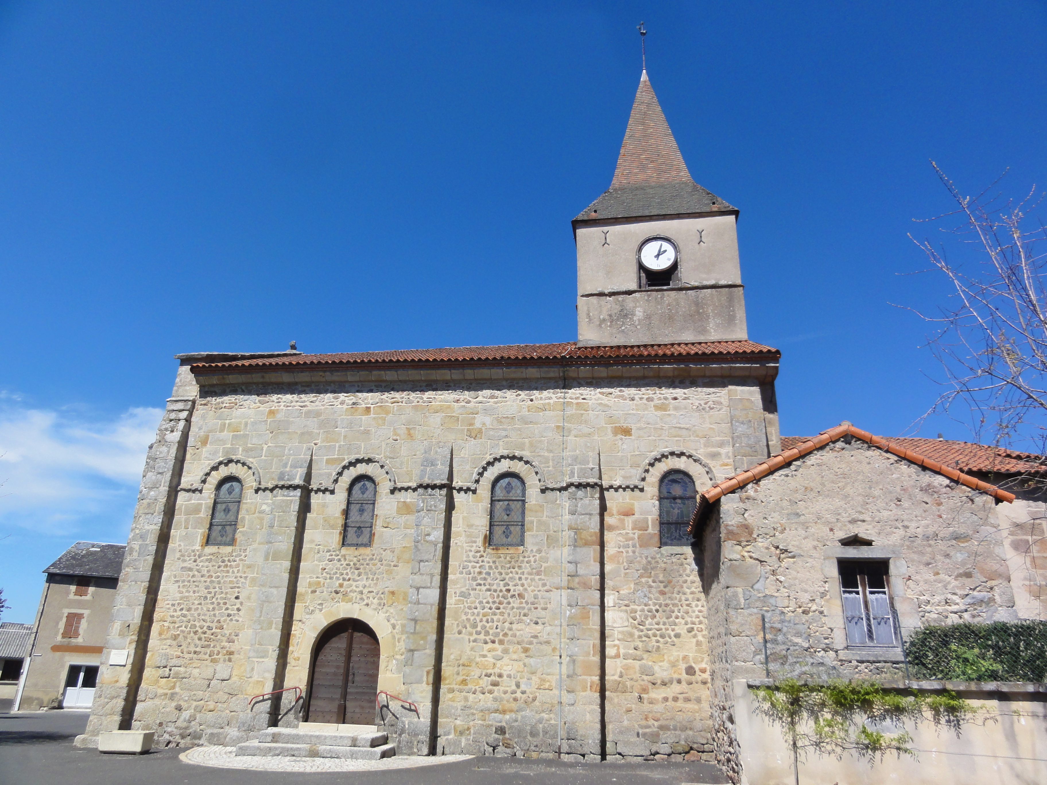 Biollet (Puy-de-Dôme) église vue latérale